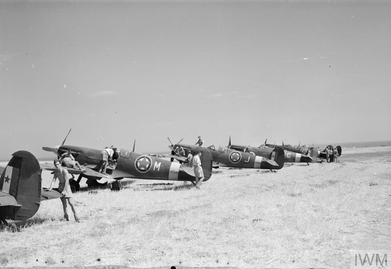 ROYAL AIR FORCE: ITALY,THE BALKANS AND SOUTH-EAST EUROPE, 1942-1945. (CNA 3097) Supermarine Spitfire Mark VCs of No. 352 Squadron, the first operational Yugoslav unit to be formed in the RAF, being prepared at Canne, Italy, for their first operation, escorting a fighter-bomber attack on targets in Yugoslavia. Note the Yugoslav national markings on the aircraft, consisting of a red star superimposed on the centre of the RAF roundel and on the central white portion of the tail... Copyright: � IWM. Original